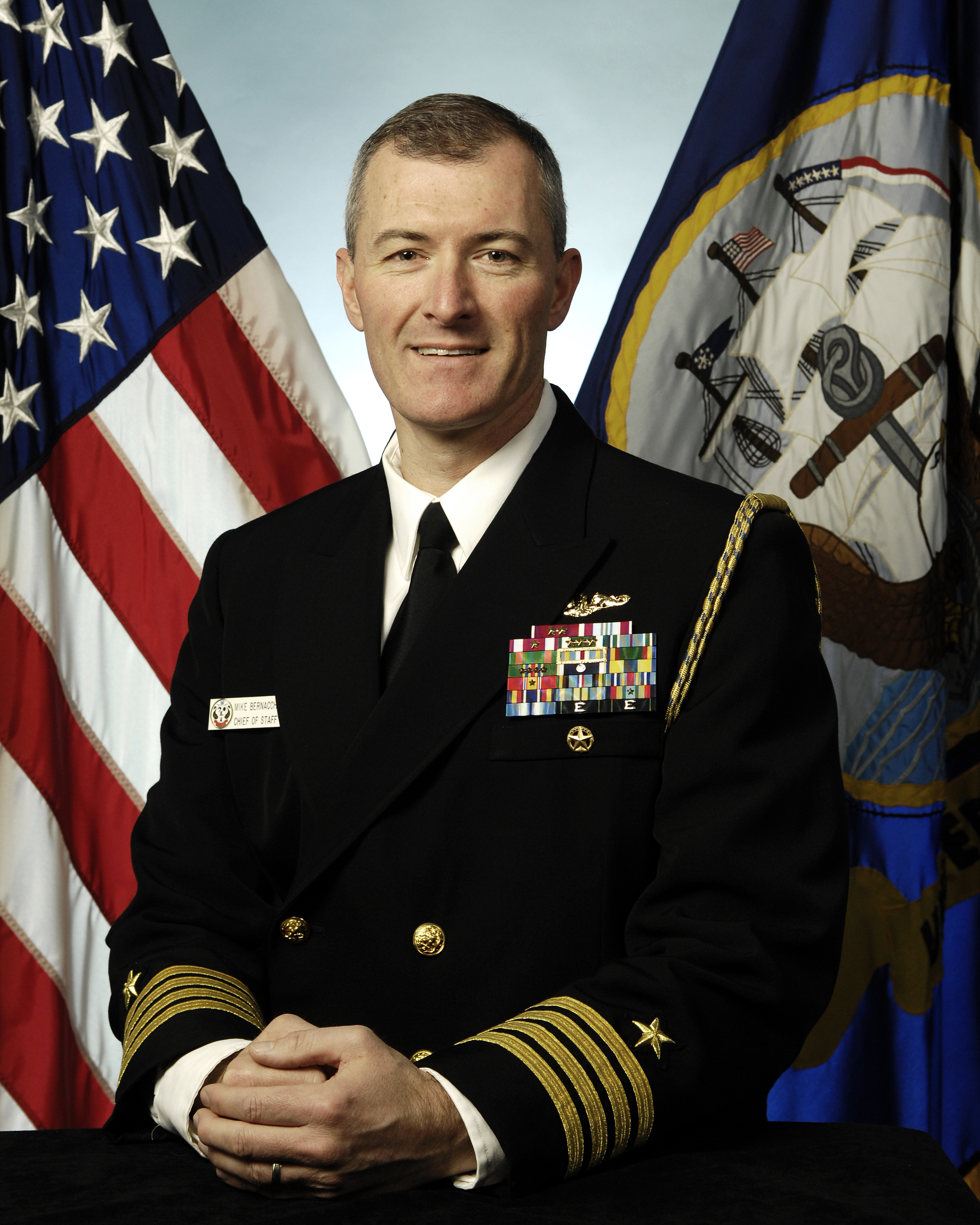 Portrait of United States Navy Captain Michael Bernacchi.